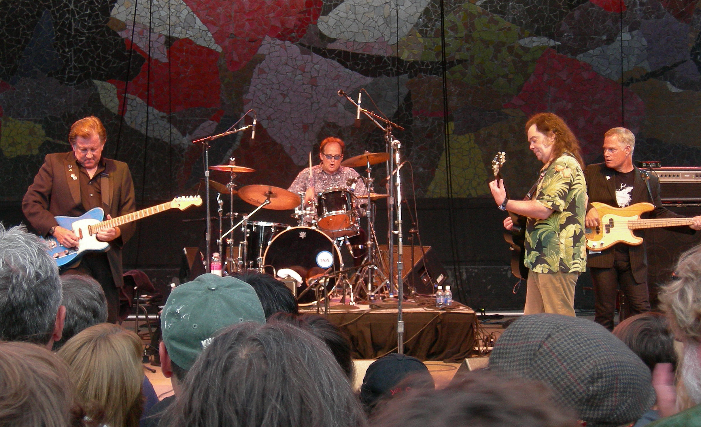 Roky Erickson and his band The Explosives at Bumbershoot, a music and arts festival held every Labor Day at Seattle Center, Seattle, Washington.